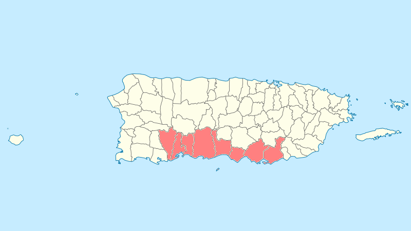 Map of Puerto Rico highlighting the municipalities included in the list article National Register of Historic Places listings in southern Puerto Rico. The delineation of a "southern region" here does not correspond to any specific definition of such a region outside Wikipedia. (Note: Uploader believes this file is out of scope for the Wikimedia Commons because it has no educational value beyond illustrating a specific Wikipedia editorial decision.)